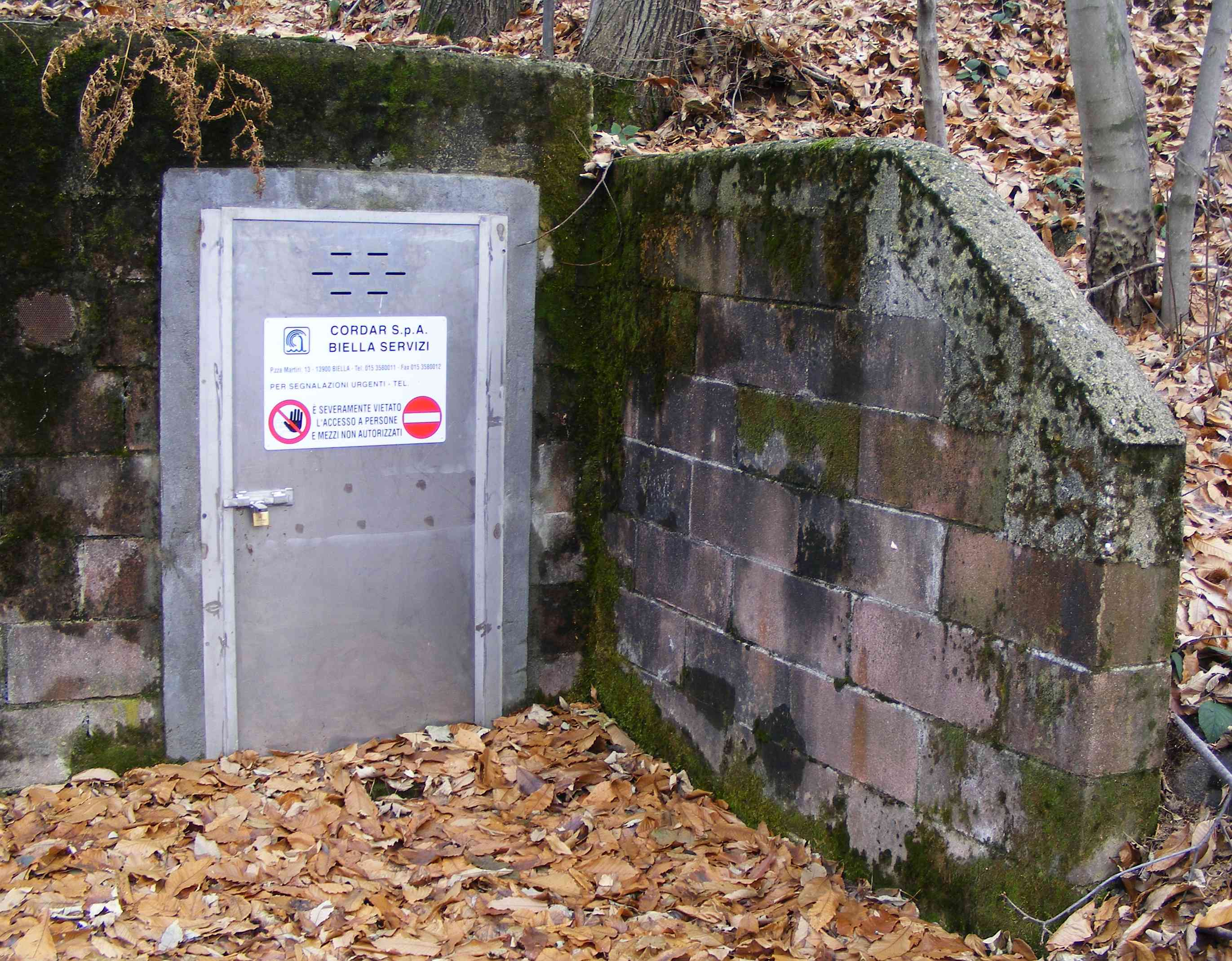 CORDAR building for fresh water catchement near Monte Casto (BI, Italy)